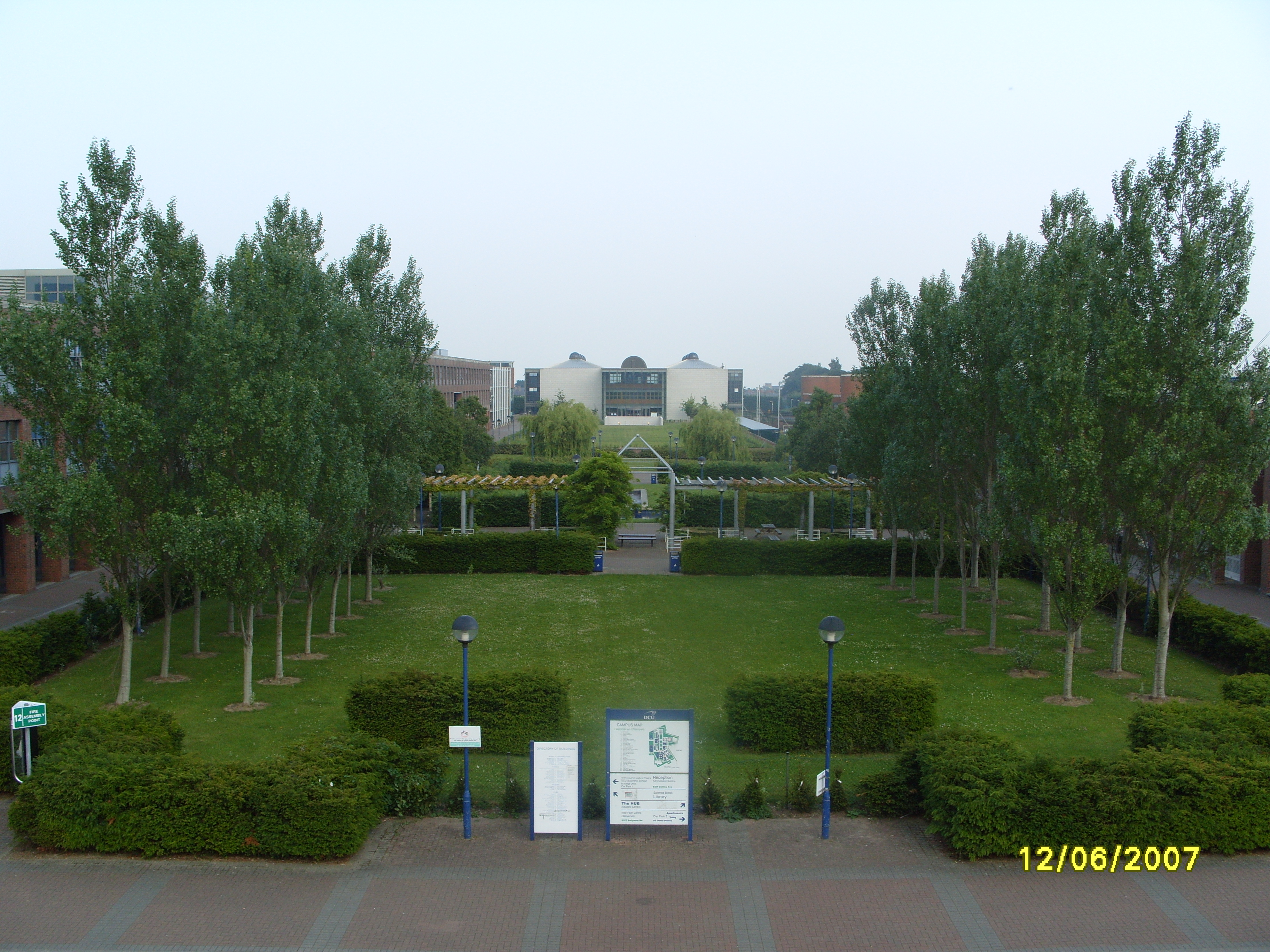 The Central Mall in DCU stretching from the Henry Grattan building to the O'Reilly Library in the background. Photograph taken by Beta.